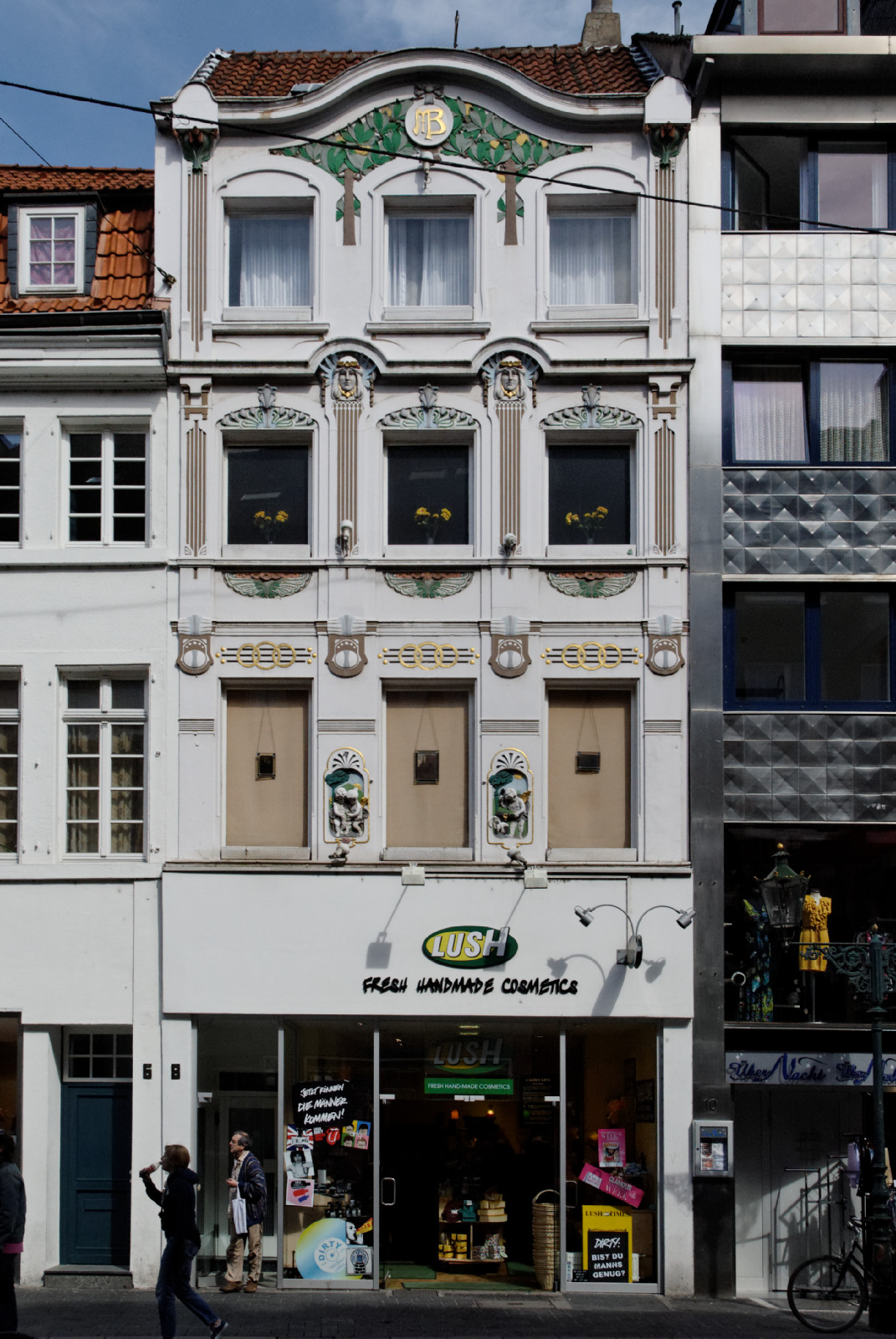 House Flinger Straße 8 in Düsseldorf-Altstadt, Germany